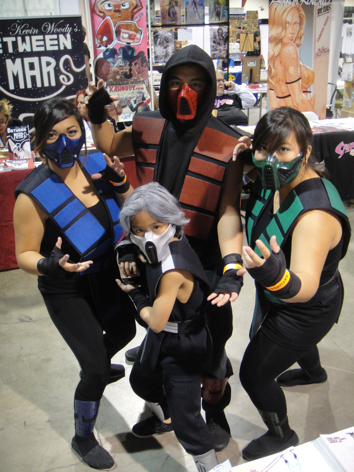 photo 2011 Pop Culture Geek taken by Doug Kline If you're interested in higher resolution versions of my images, contact me via my profile page.